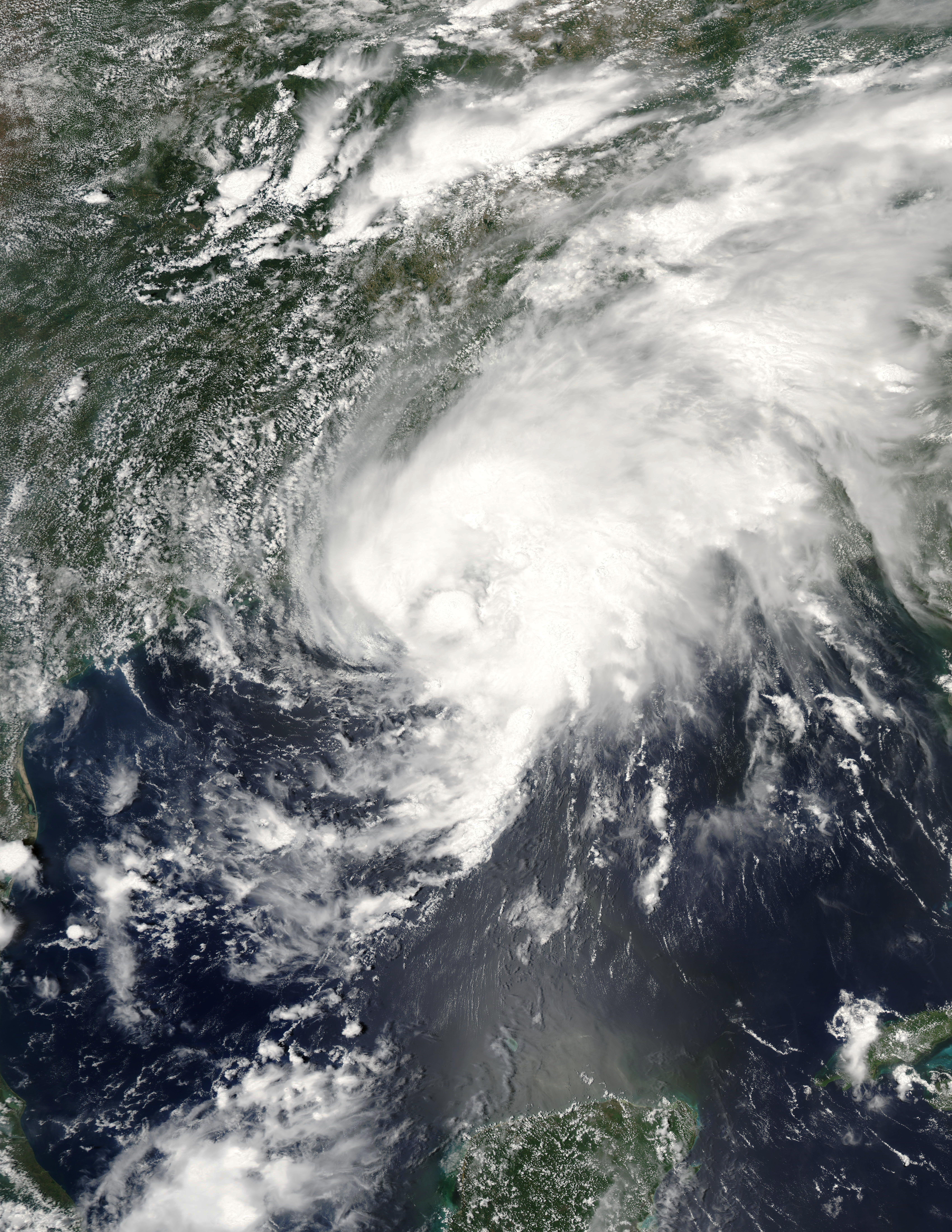 This Moderate Resolution Imaging Spectroradiometer (MODIS) image from the Aqua satellite shows Tropical Storm Bill making landfall over the Gulf Coast of the United States. The storm may look a bit disorganized, but the threat of heavy rains, tornados, and flooding persisted for parts of the South, East and Mid-Atlantic regions of the U.S. on July 1, 2003.